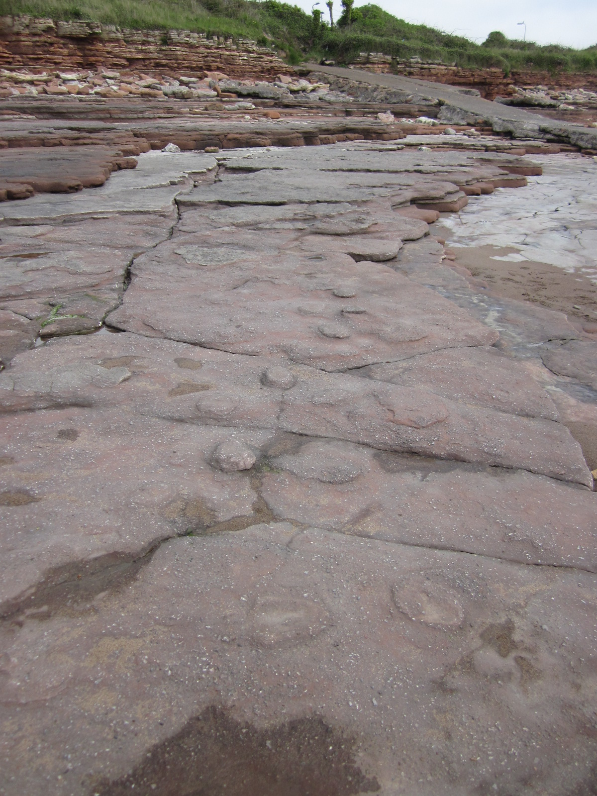 Slightly worn dinosaur footprints on the foreshore near Bendrick Rocks